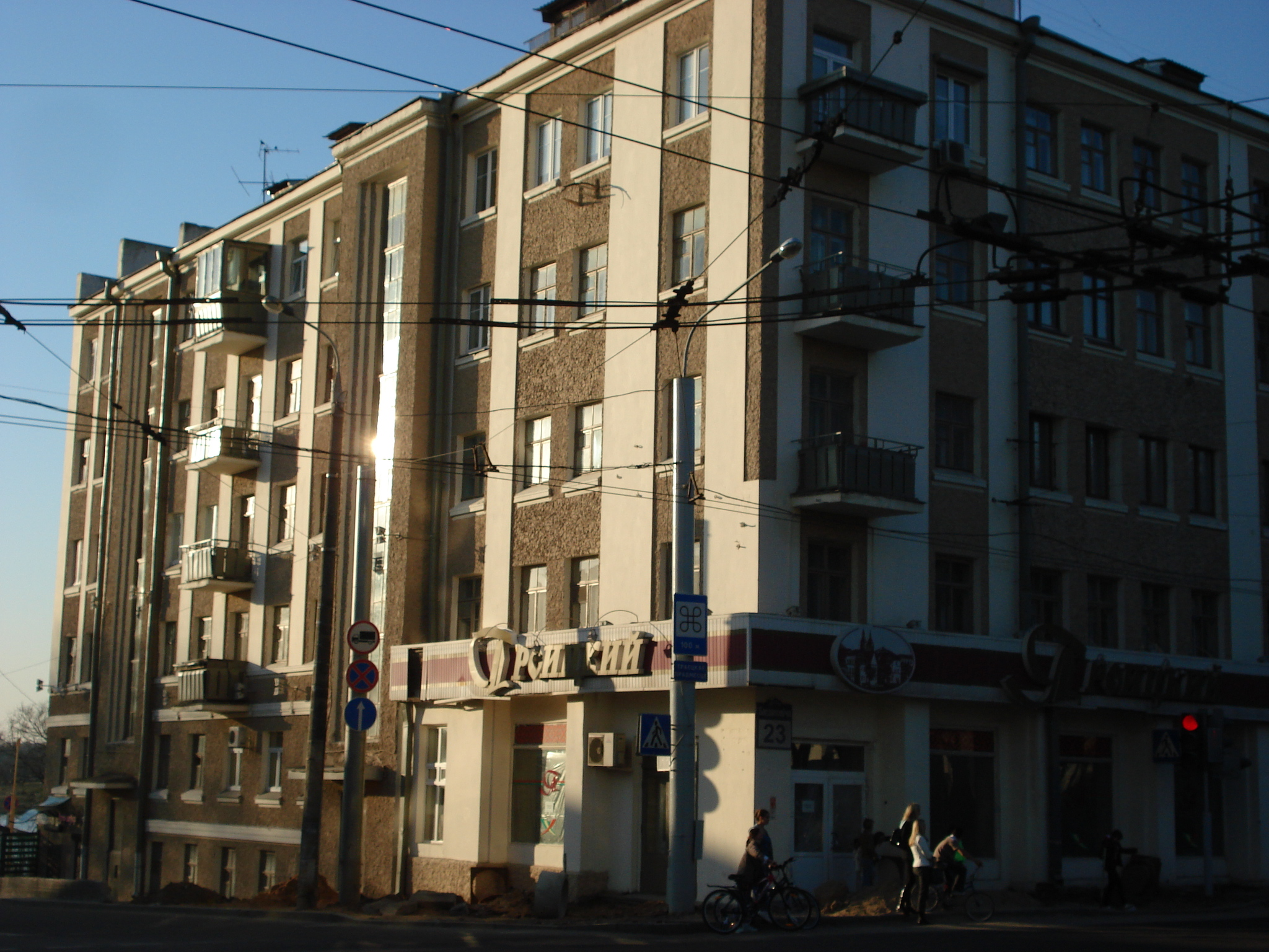 Traeсkaje suburb